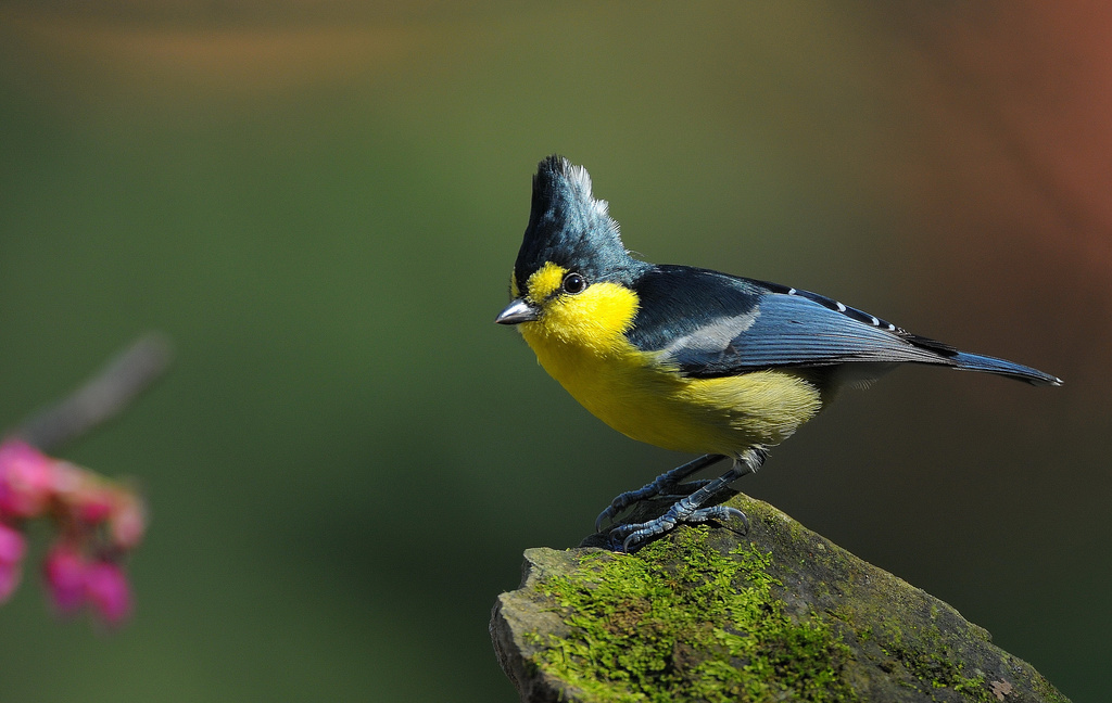 Yellow Tit - (Parus holsti)